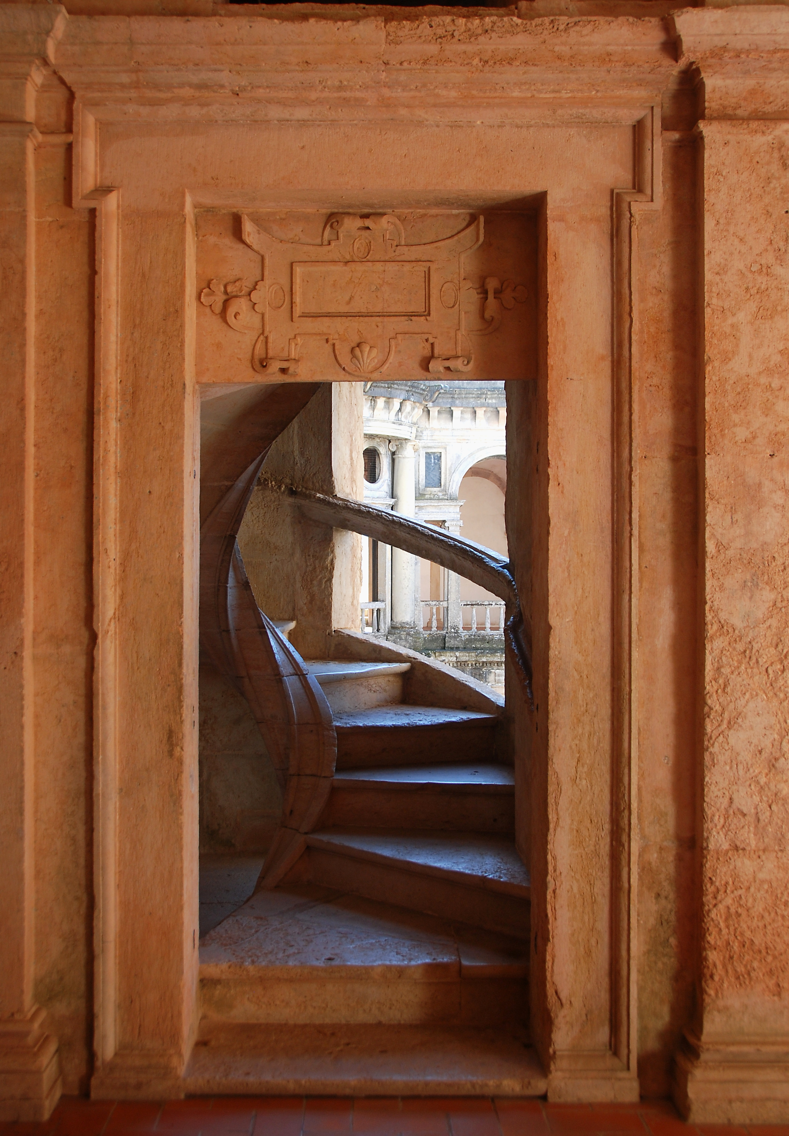 Door to a spiral staircase in the Cloister of John III at Convent of Christ, Tomar, Portugal.